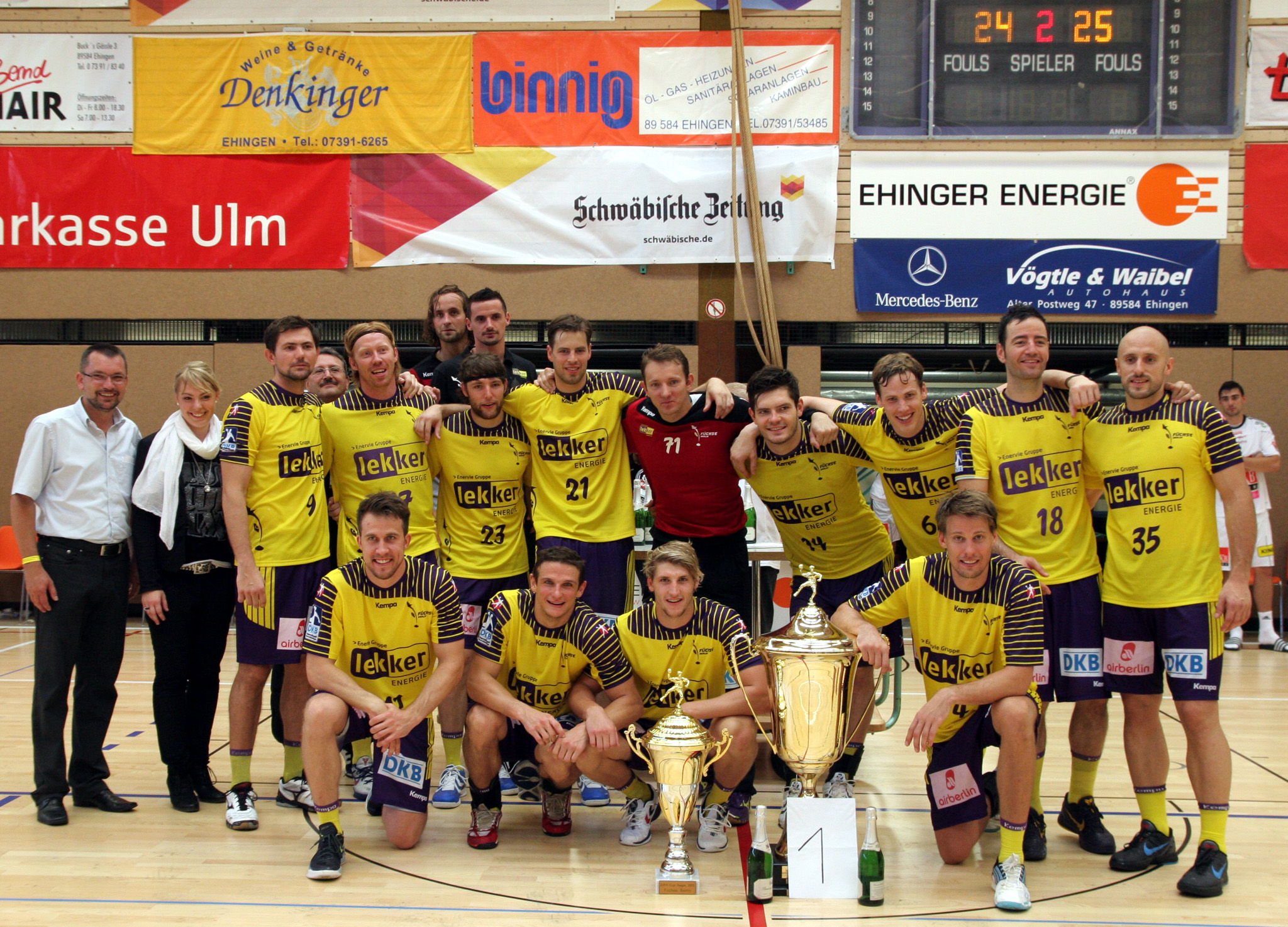 Handball team Füchse Berlin, winner of the EVFH-Cup (formerly known as Schlecker Cup) on August 20th, 2012 in Ehingen (Germany).